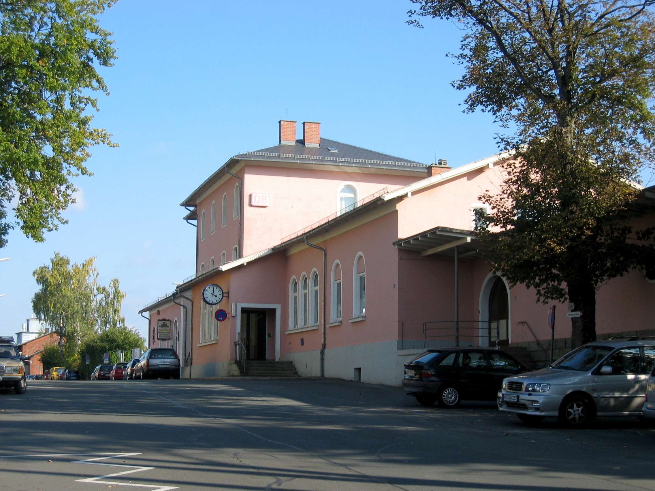 Münchberg train station.